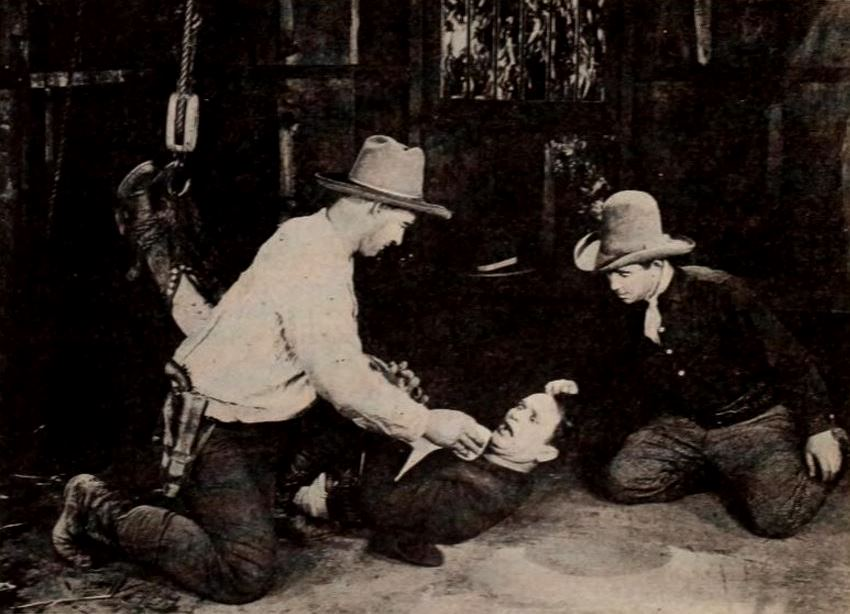 Still from the American western film serial Vanishing Trails (1920) with Franklyn Farnum, the other actors are not identified, on page 47 of the May 22, 1920 Exhibitors Herald.